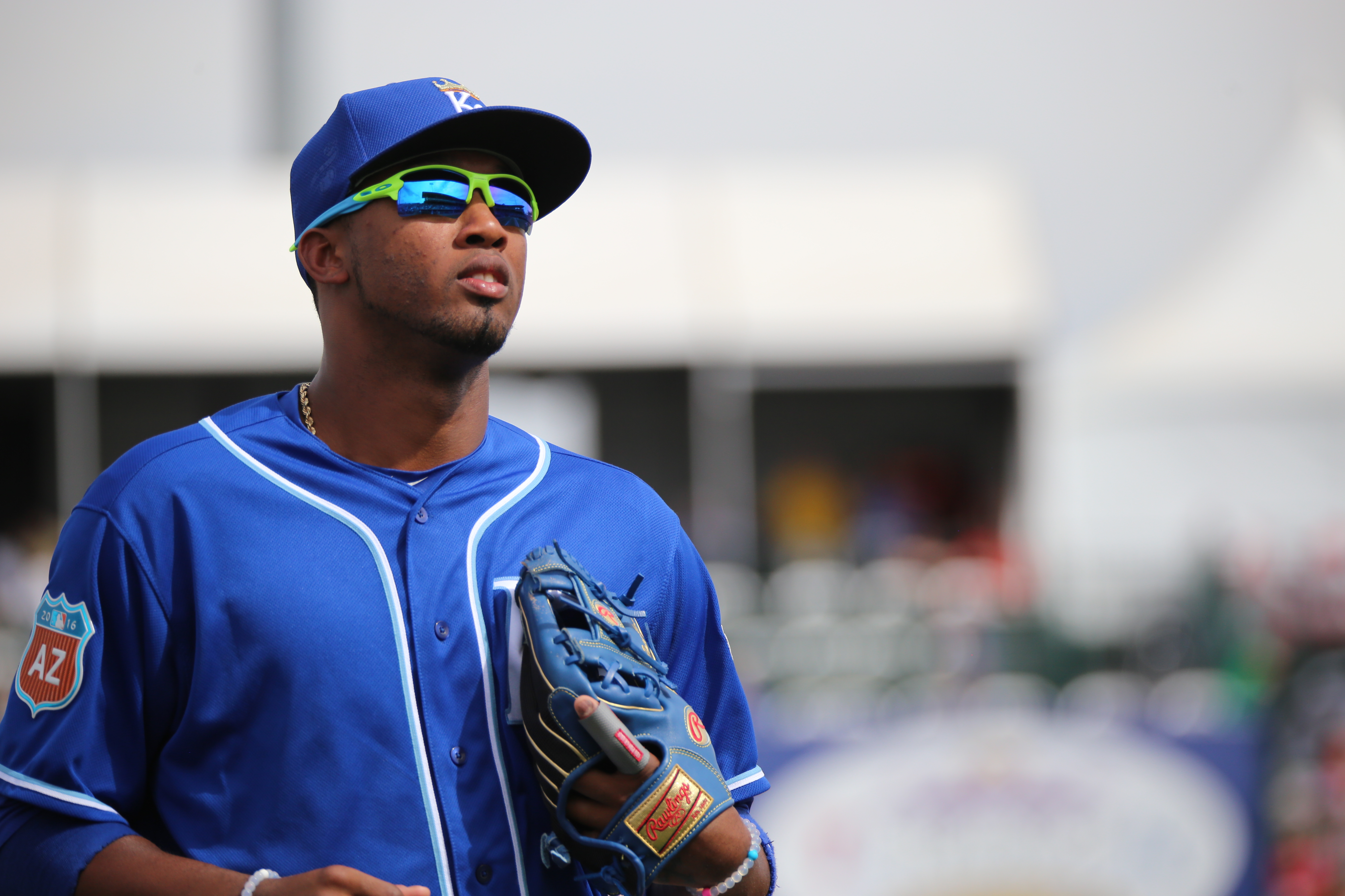 Royals shortstop Alcides Escobar returns to the dugout.